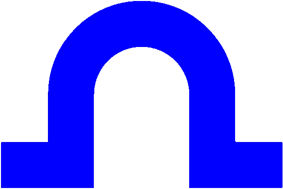 Logo of the International Soling Class